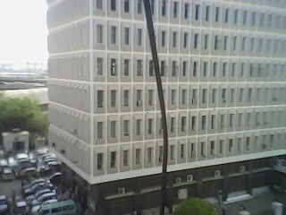 Building of new Custom House in Karachi. Pakistan Customs is a government organization working under the federal Ministry of Finance and the Federal Board of Revenue in Pakistan. Its headquarters is FBR, Islamabad.